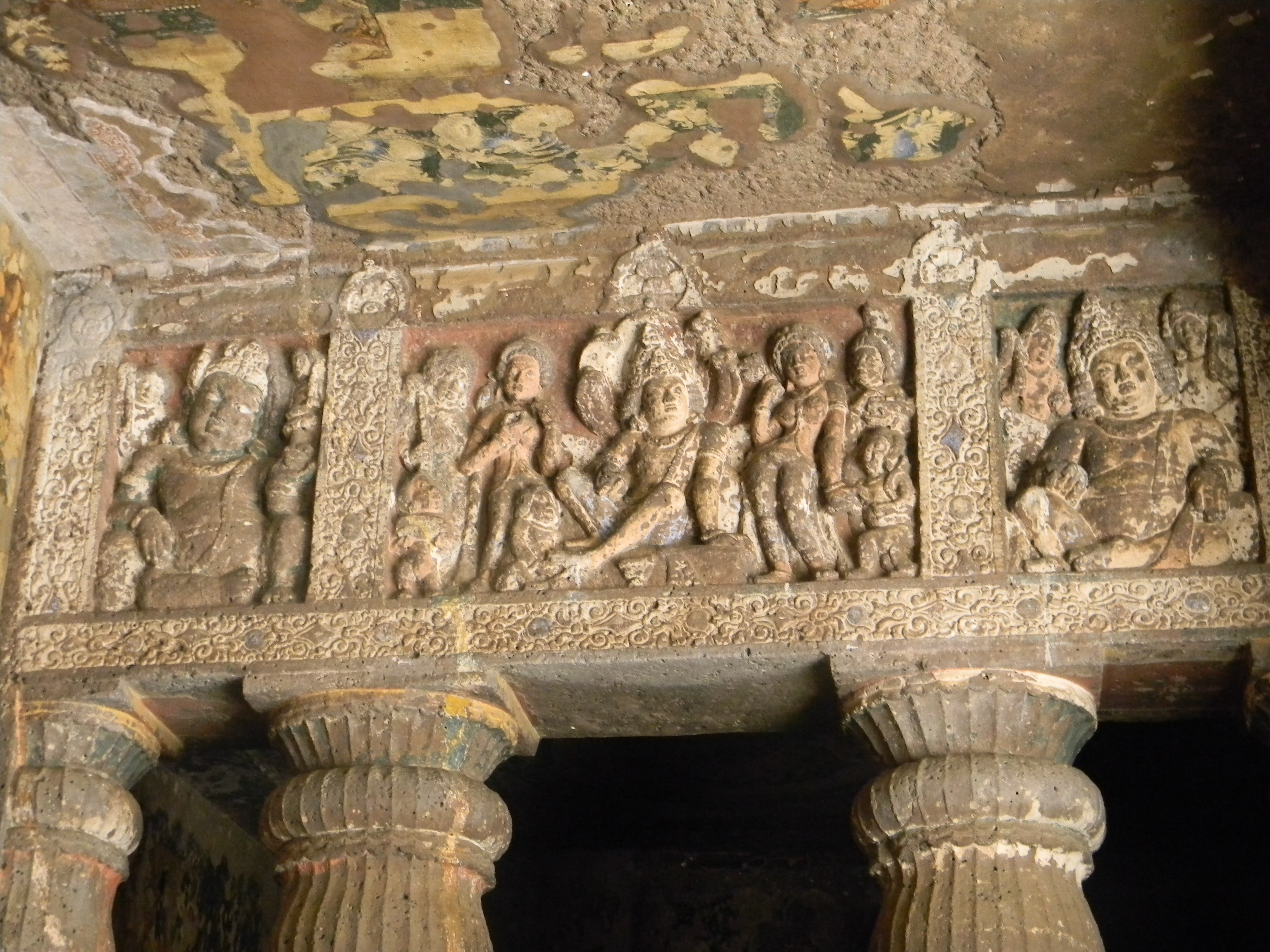 Ajanta Caves